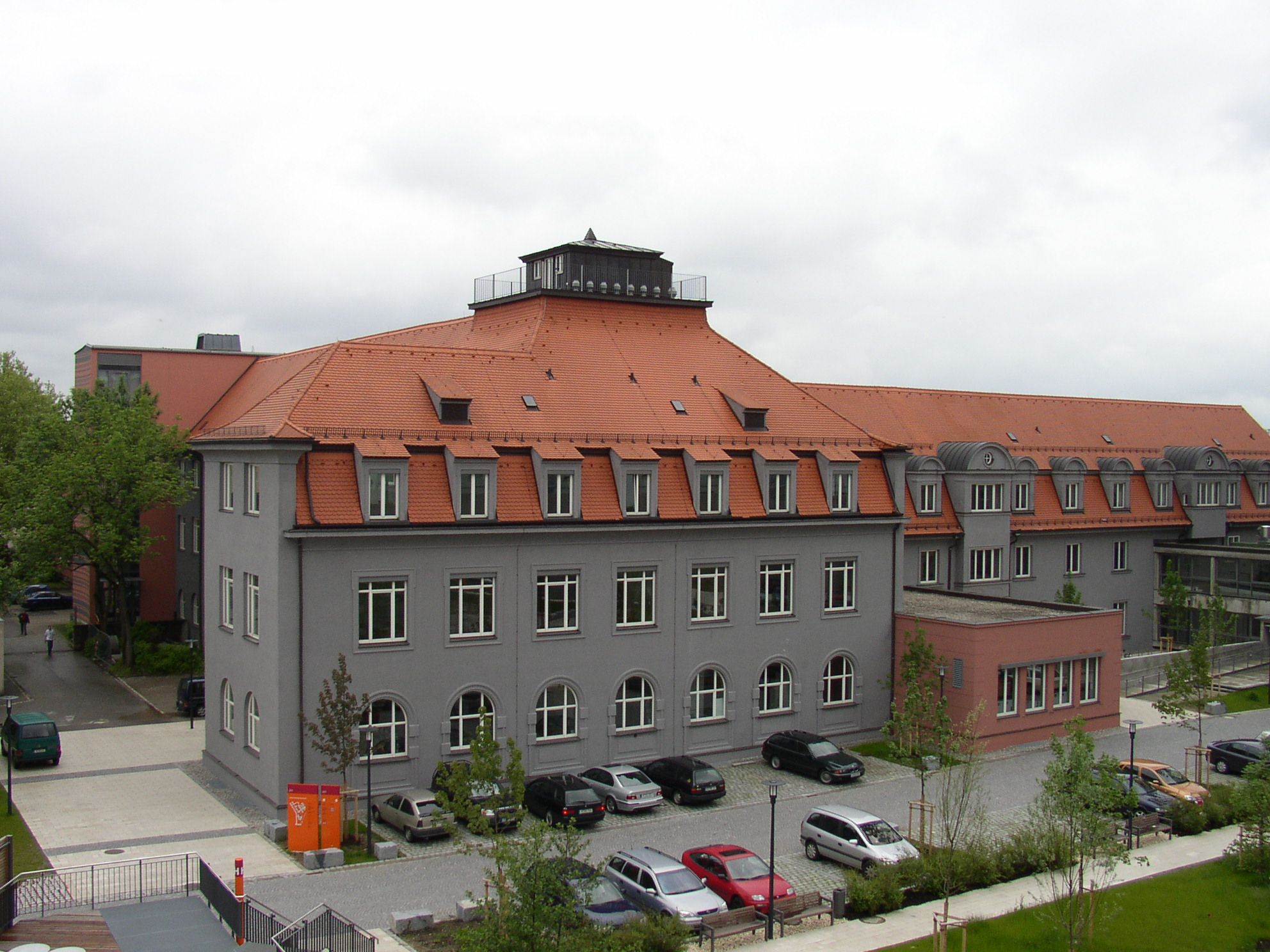 Building A of Hochschule Augsburg (University of Applied Sciences), in the background on the left building B; view from building H